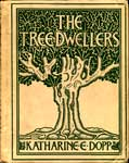 Book cover of "The tree-dwellers" by Katharine Elizabeth Dopp, published 1904 in Chicago